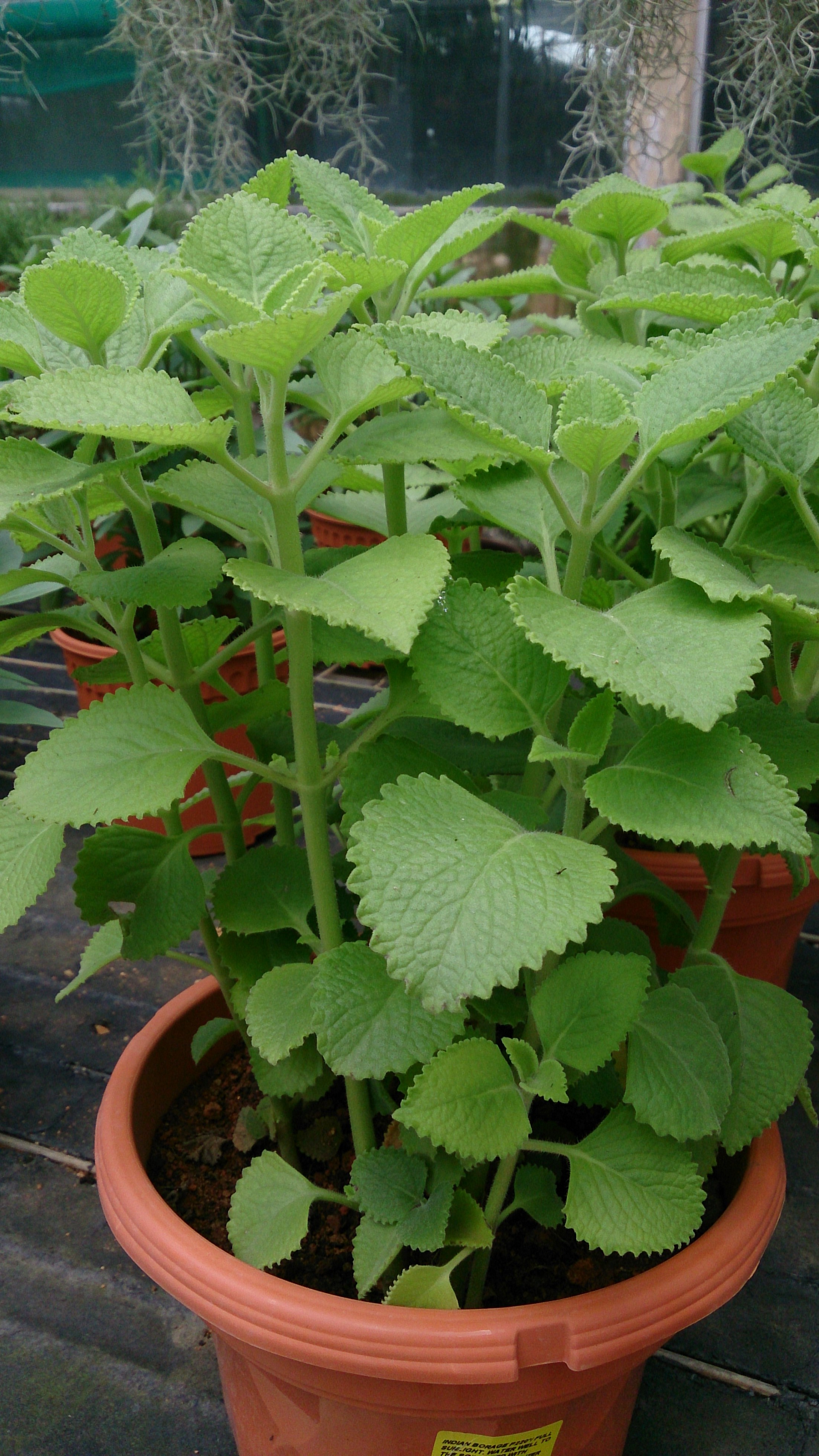 Plectranthus amboinicus. Common names: Indian Borage. Mexican mint. Spanish Thyme, Cuban Oregano. 到手香 (Chinese)